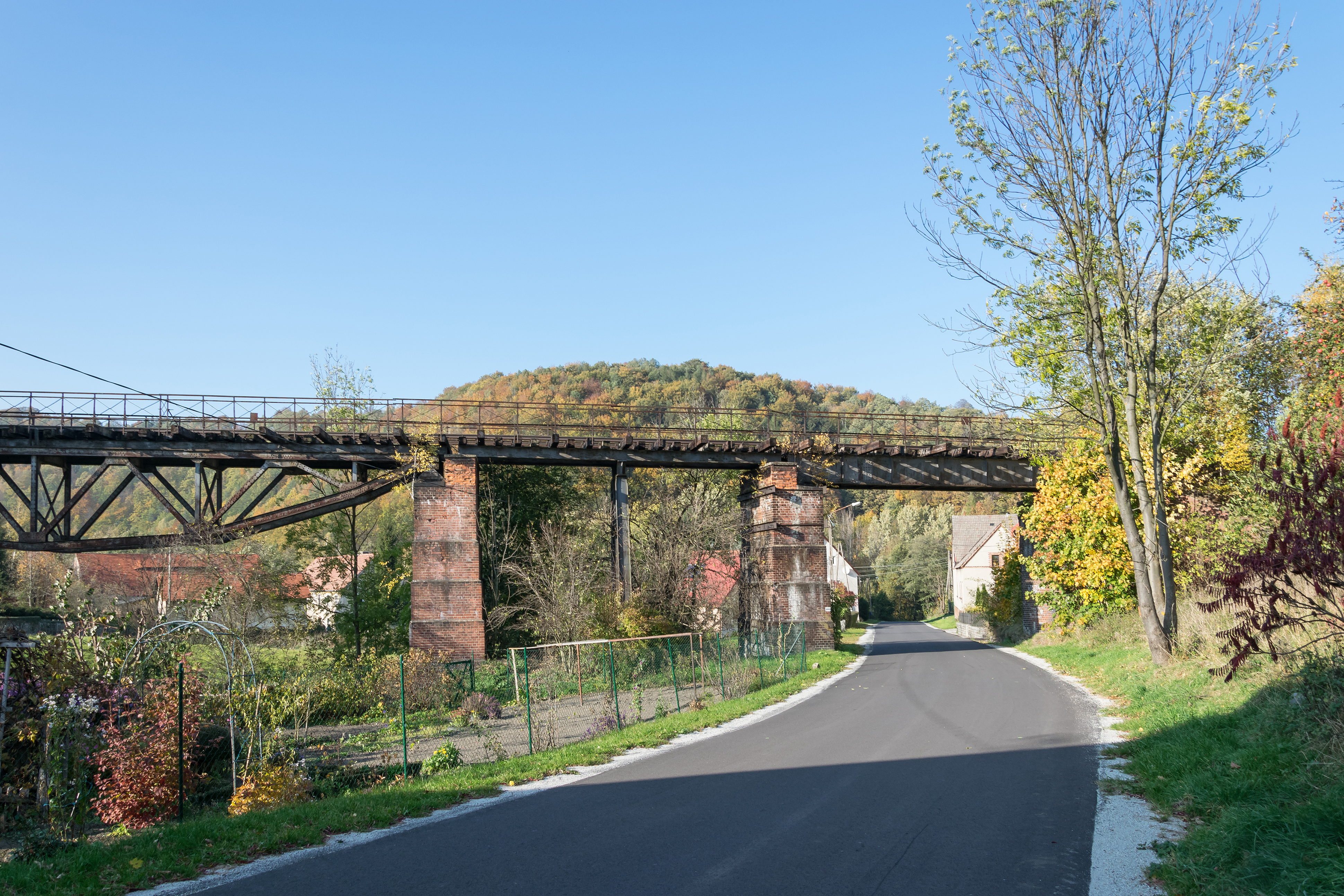 Overpass in Jugowice